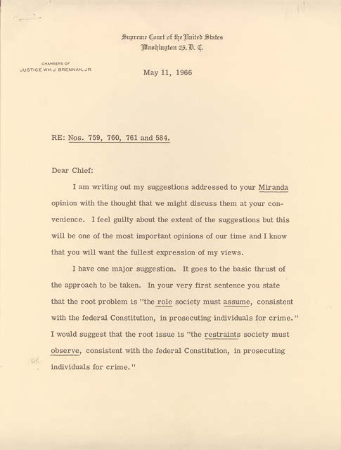 Justice Brennan's comments on the Miranda decision, Memorandum, May 11, 1966